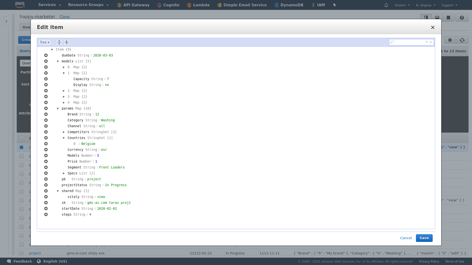 We can see different types of data.